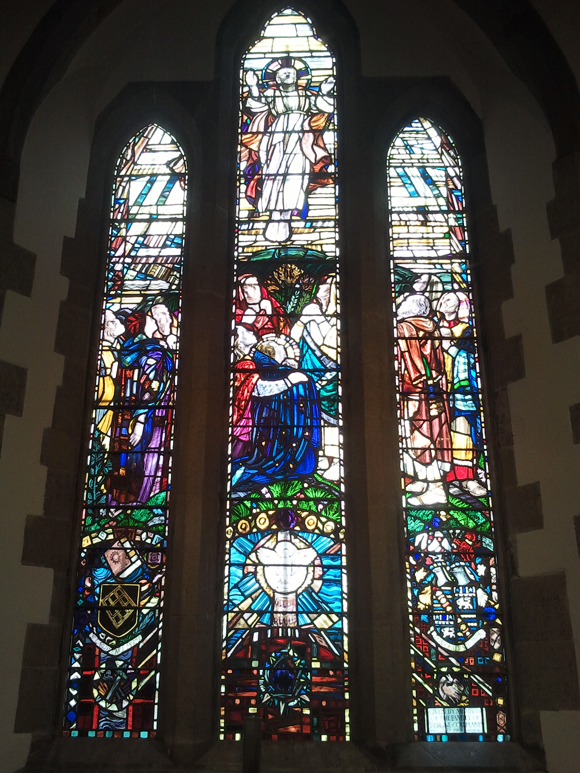 Skellingthorpe church's East Window, presented in 1961.